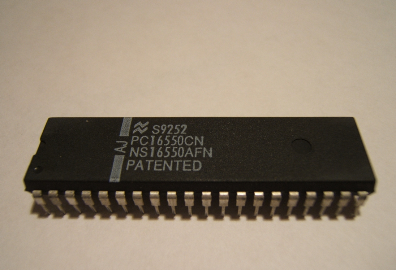 An NS16550 UART chip (Serial computer communications) manufactured by National Semiconductor in the 52nd week of the year 1992.